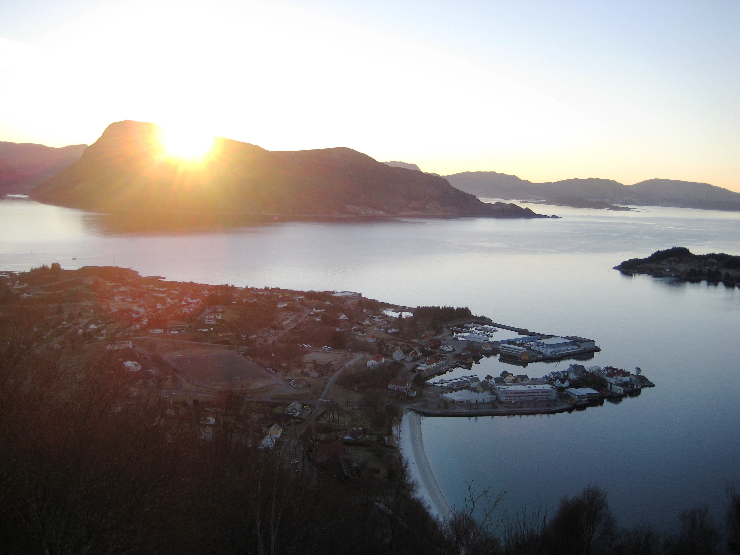 Sunset over Barmøy